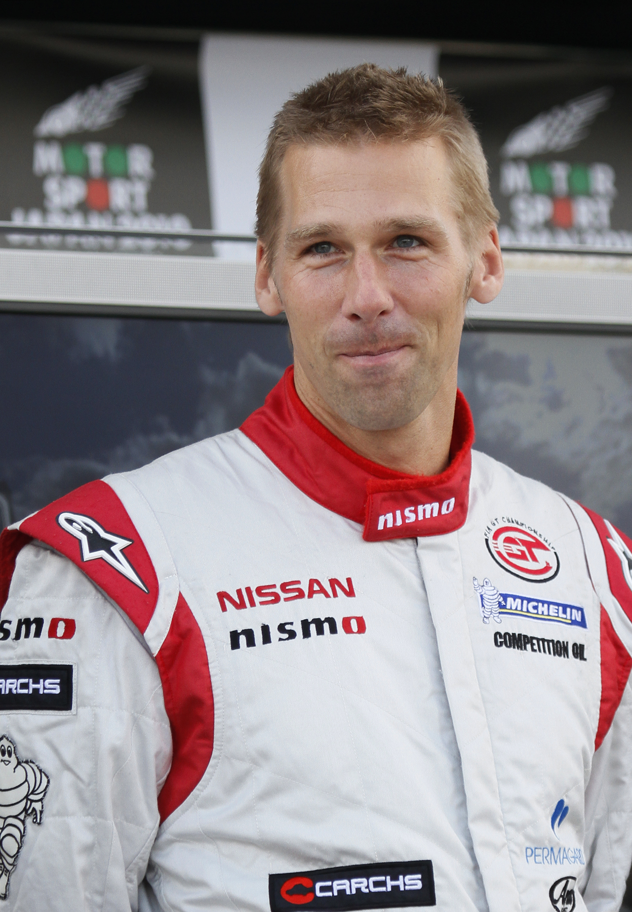 Motorsport Japan 2010: Michael Krumm (Sumo Power GT / FIA GT1)